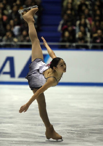 Mirai Nagasu performs a spiral during her short program at the 2008 NHK Trophy.